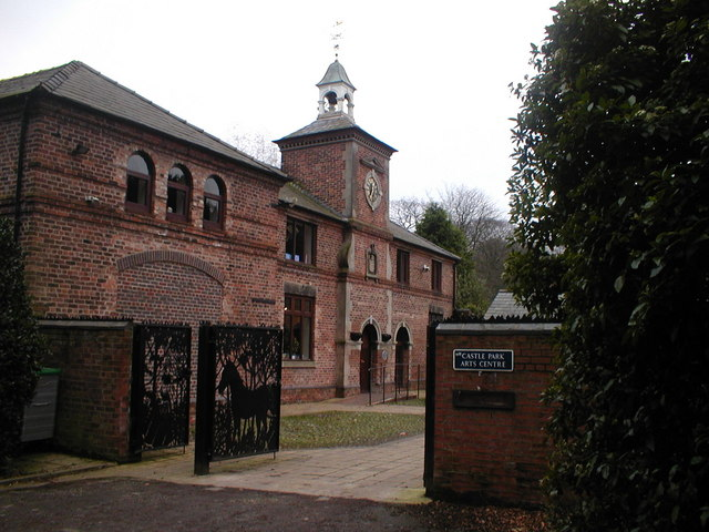 Frodsham - Castle Park Arts Centre (This is to show the specially sculptored wrought iron gate.)